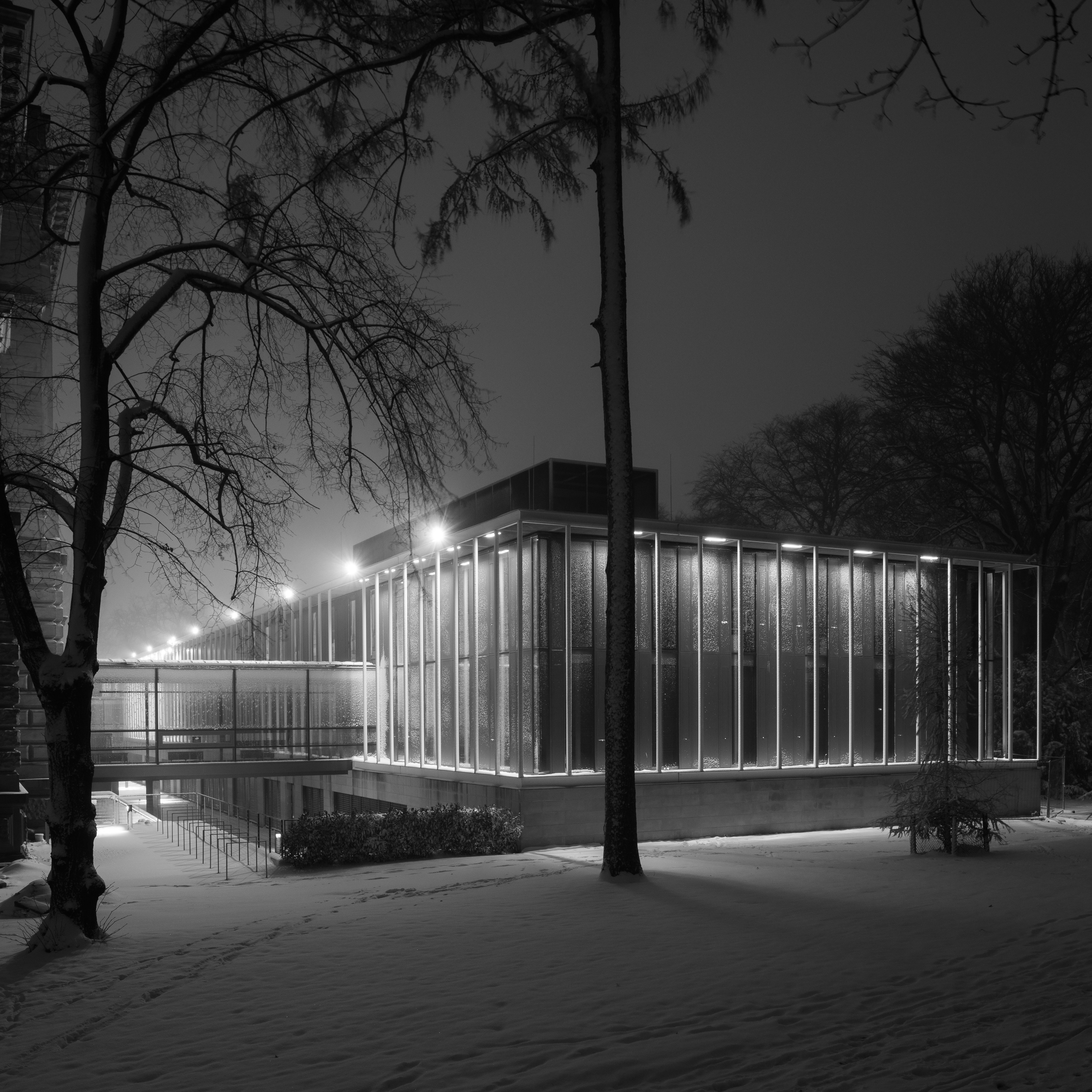 Herzog-Anton-Ulrich-Museum (HAUM), Brunswick. New extension building from 2010 for archive, workshop and the copper engravings collection.